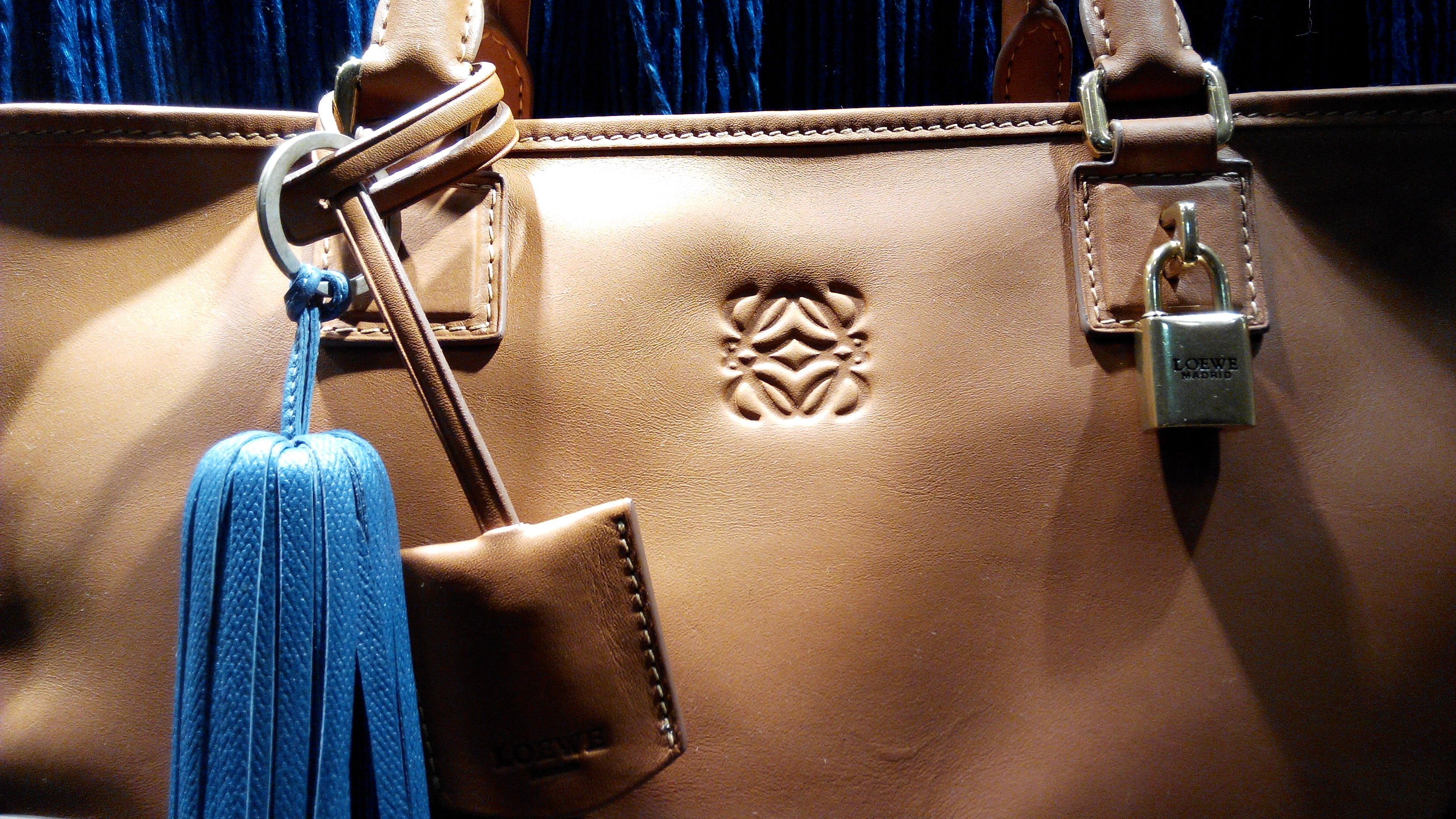 Mall shops in Times Square, Causeway Bay, Hong Kong